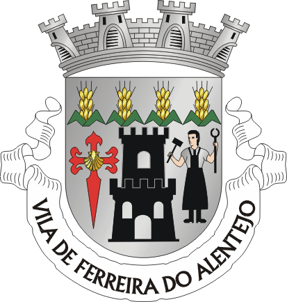 Crest of Ferreira do Alentejo municipality, Portugal